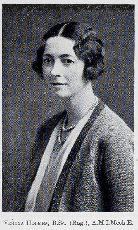 Verena Holmes' portrait in the announcement of her Presidency of the Women's Engineering Society in their journal The Woman Engineer vol 3